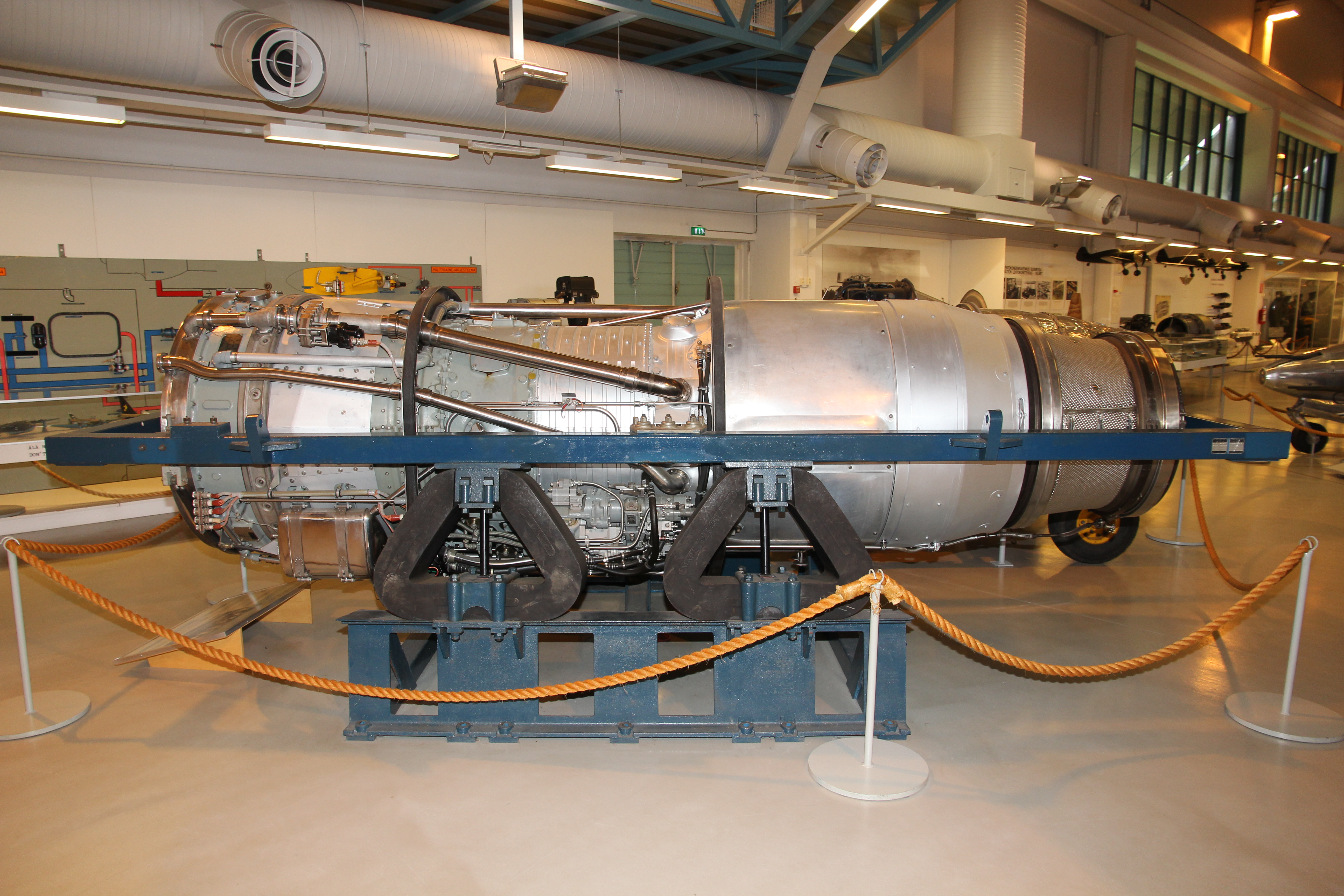 Rolls-Royce Bristol Siddeley Olympus Mk.301 jet engine serial number 650179 in the Aviation Museum of Central Finland. This example was the number four engine (right outermost engine) of Avro Vulcan XM612.